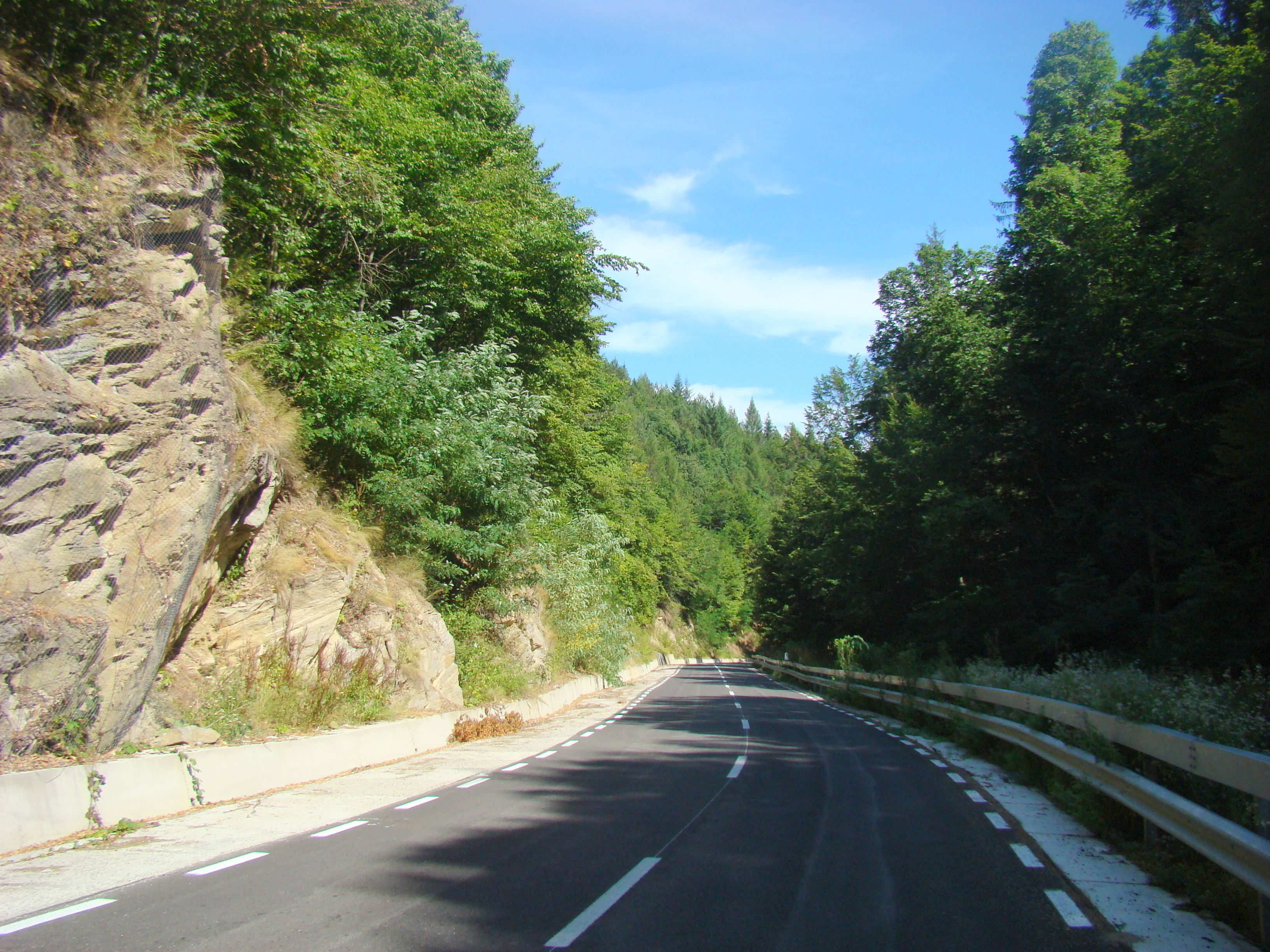 Transemenic, Caraş-Severin county, Romania